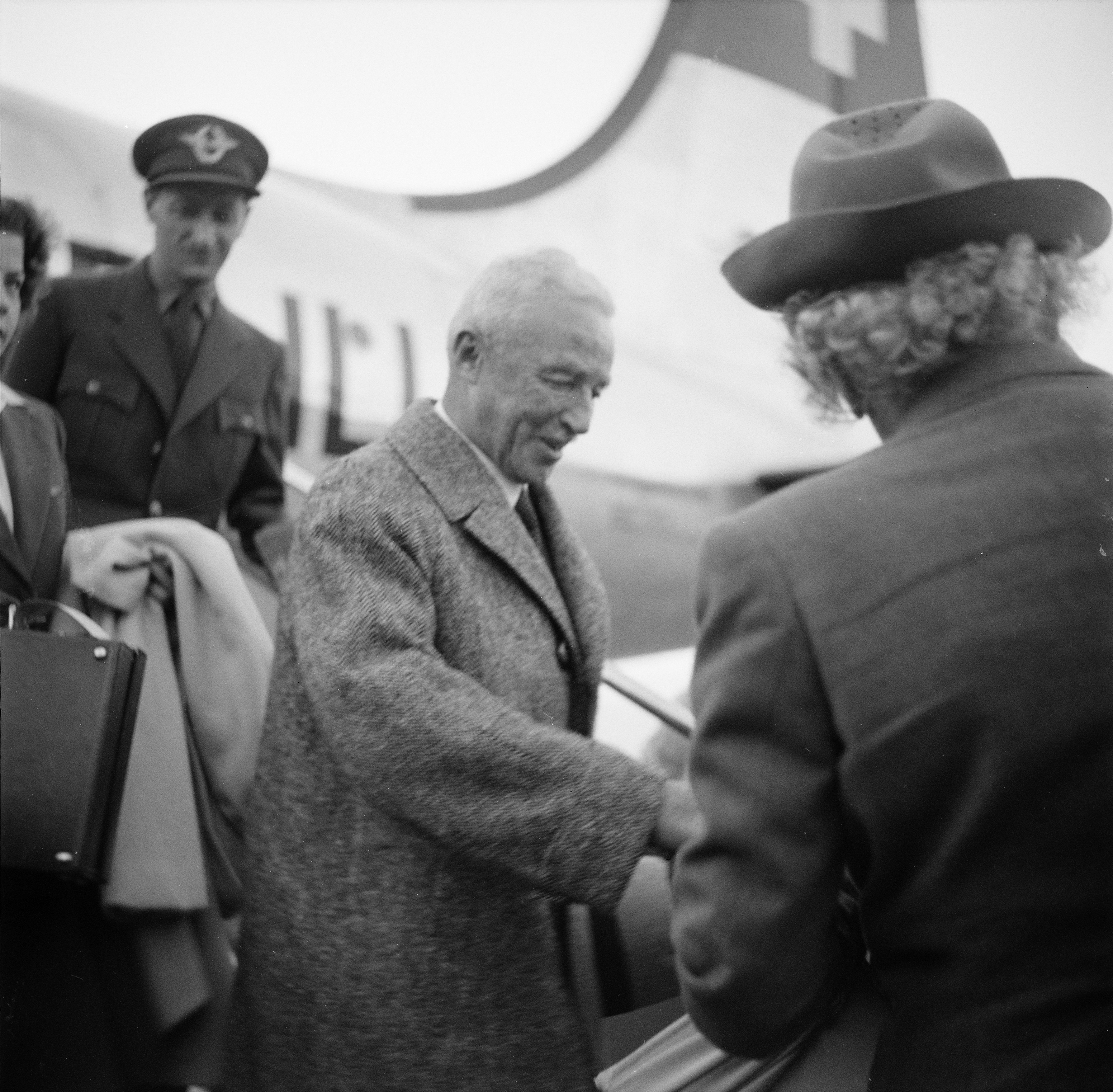 Henri Guisan, swiss general